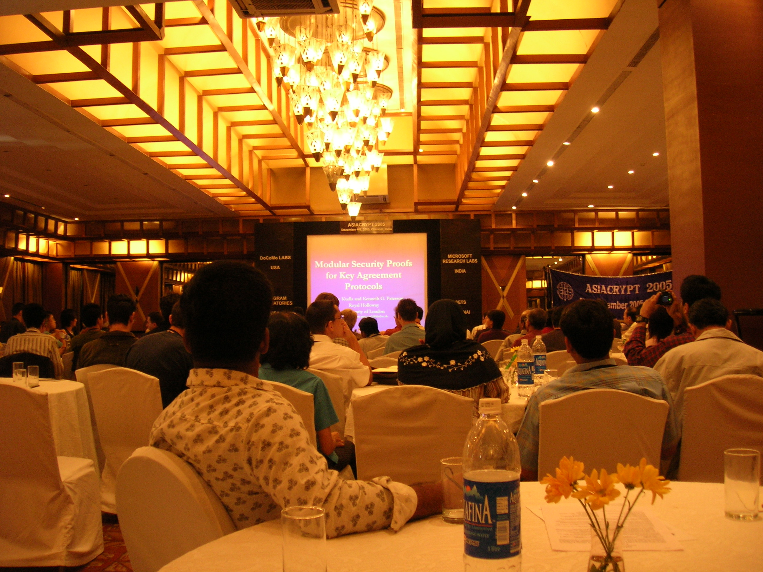 Photo taken in Asiacrypt 2005.